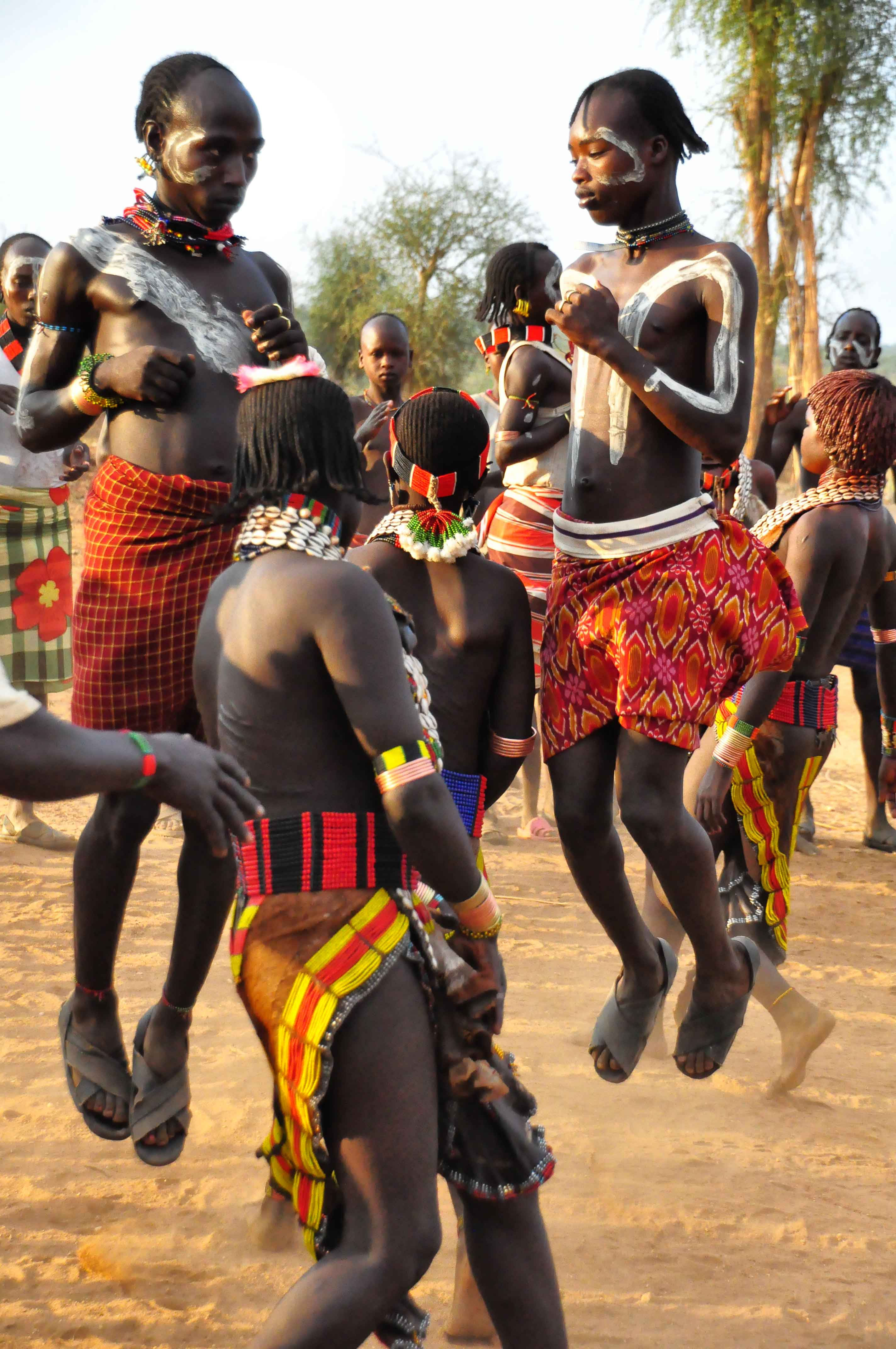 Hamer is pronounced Hammer